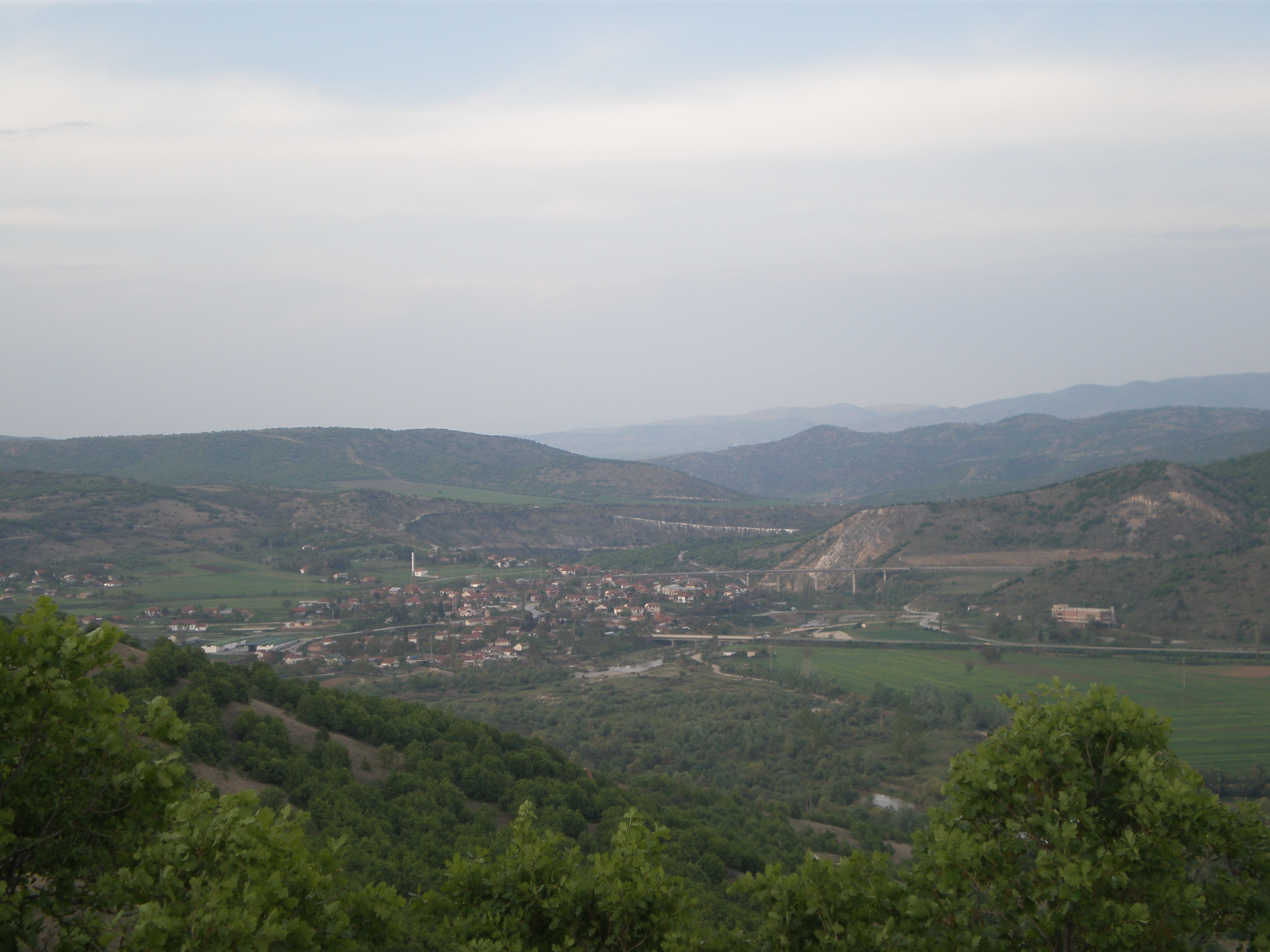 Katlanovo viewed from the road to village of Blace, Macedonia